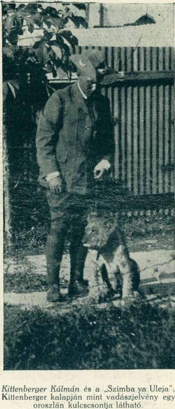 Kálmán Kittenberger and a lion